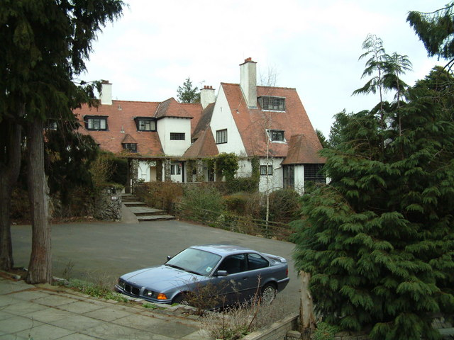 Sandford Country House Hotel. Photographed from the south across the car park